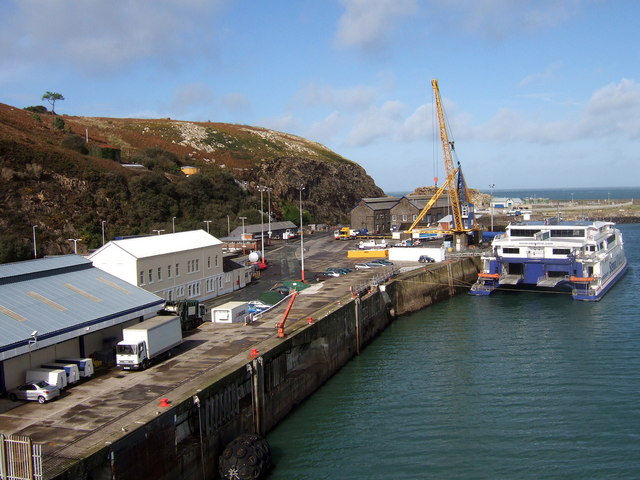 The quay at Fishguard ferryport Although known as Fishguard harbour it is actually in Goodwick, Fishguard's close neighbour to the west. The picture was taken from the ferry which had just raised anchor at the start of the crossing to Rosslare.